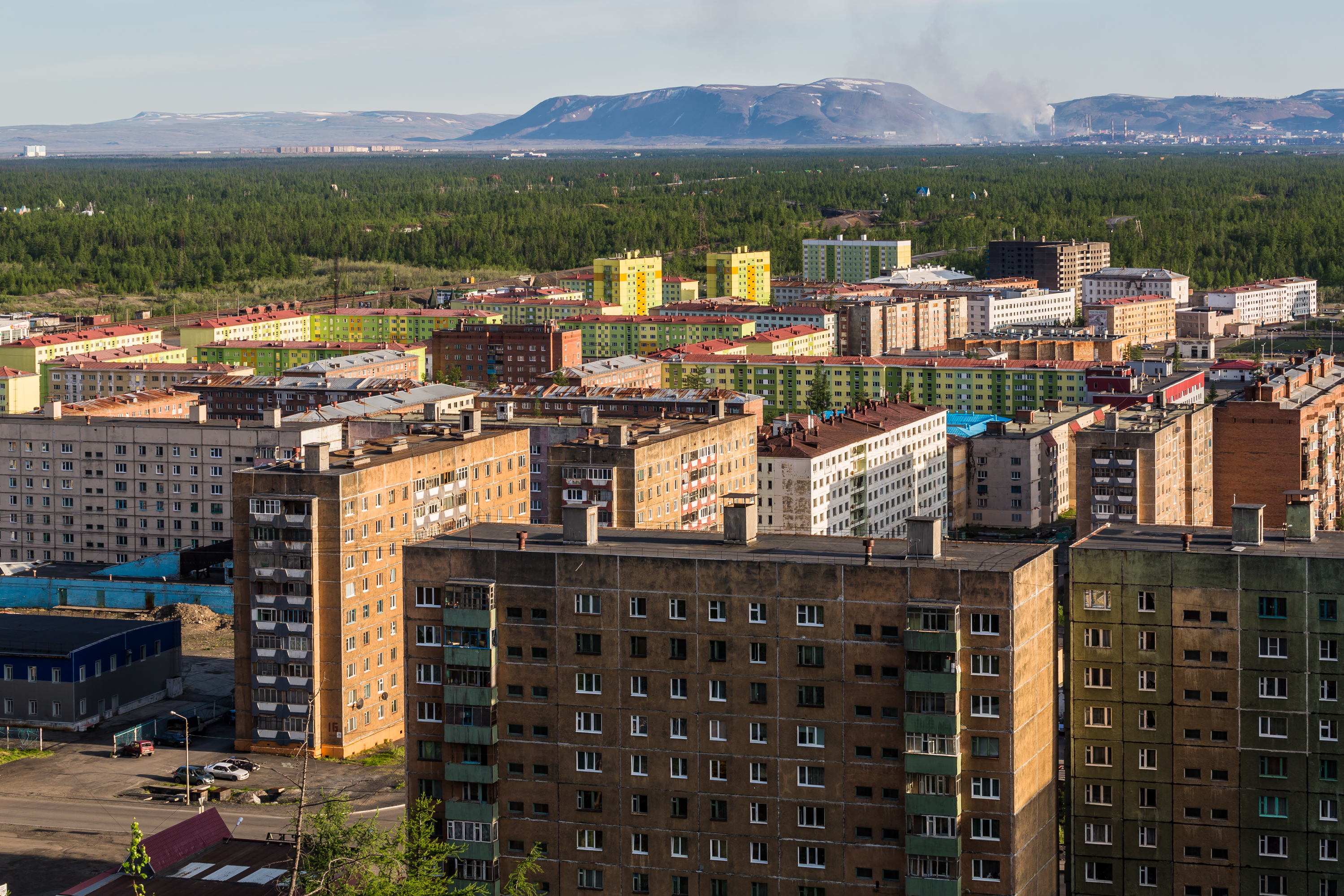 Talnakh, suburb of Norilsk, located about 25 kilometers north of Norilsk